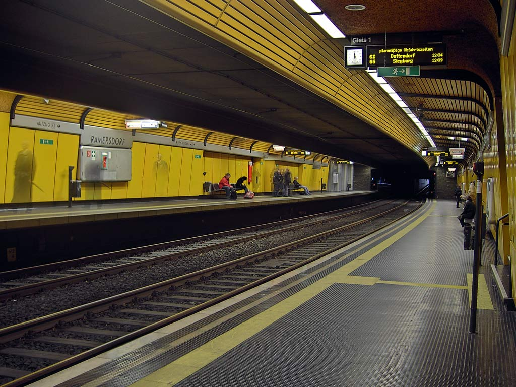 Underground station Ramersdorf in Bonn.